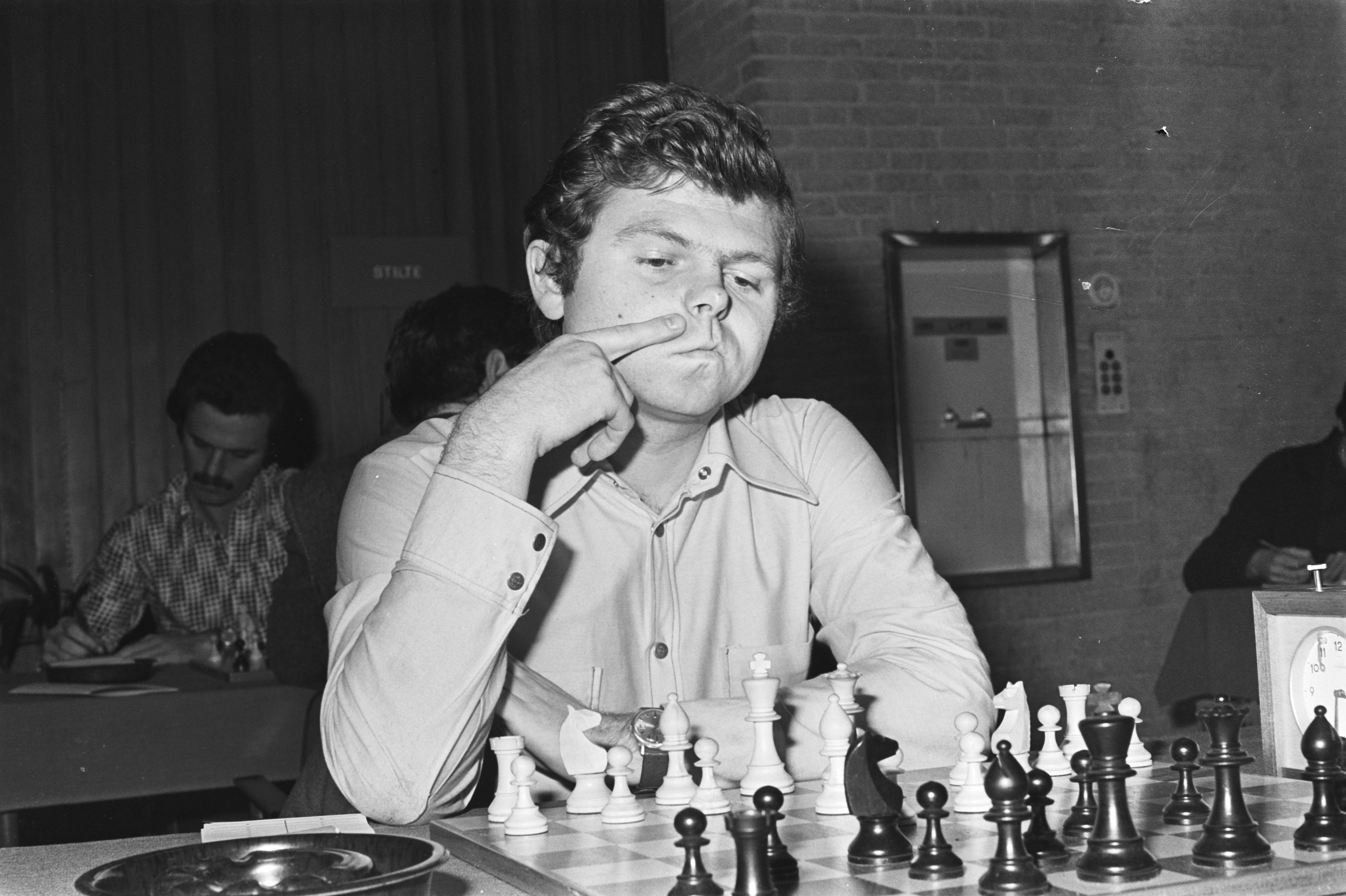 Hoogovens tournament 1977. Viktor Kupreichik